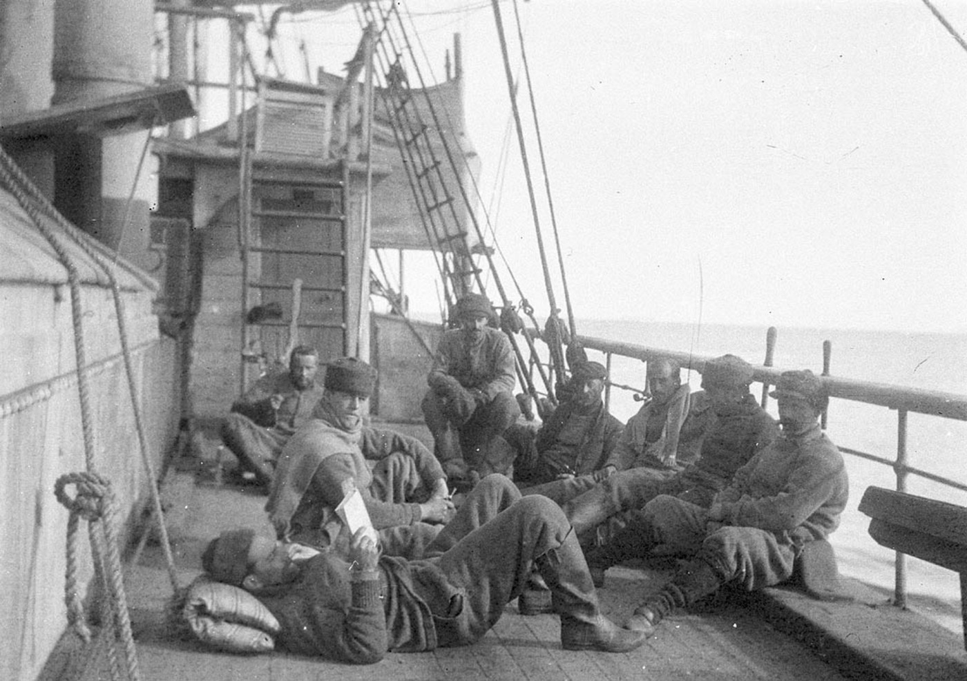 Photograph of the Western Base Party of the Australasian Antarctic Expedition, 1911-1914, taken on the Aurora's deck by Percy Gray.